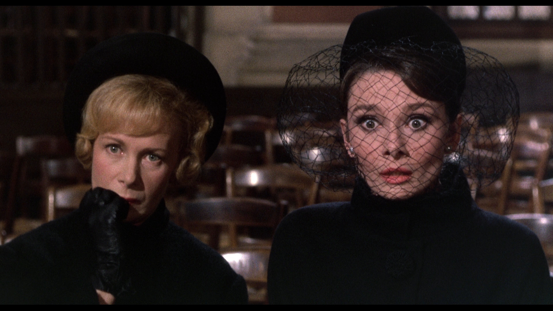 A screenshot from the film Charade (1963)